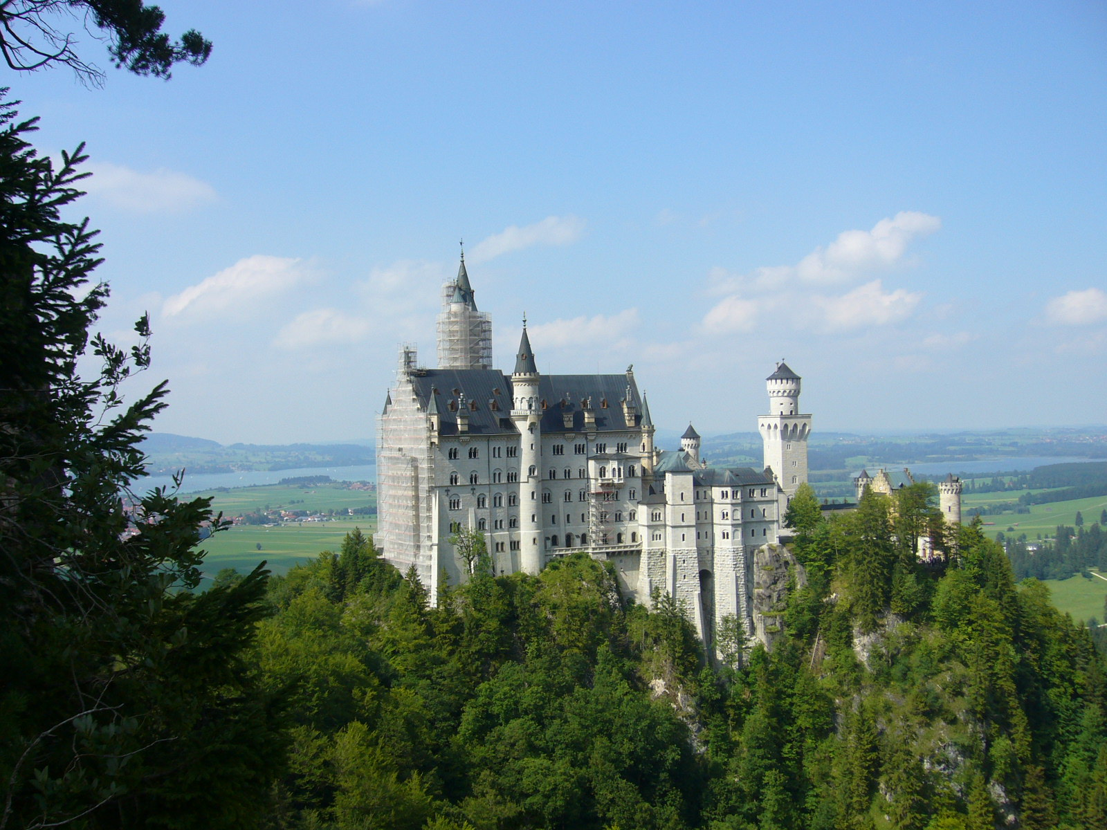 Neuschwanstein Castle